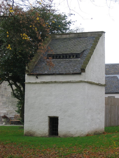 Old Dovecot This old dovecot is in the grounds of the former Pitreavie Castle estate.